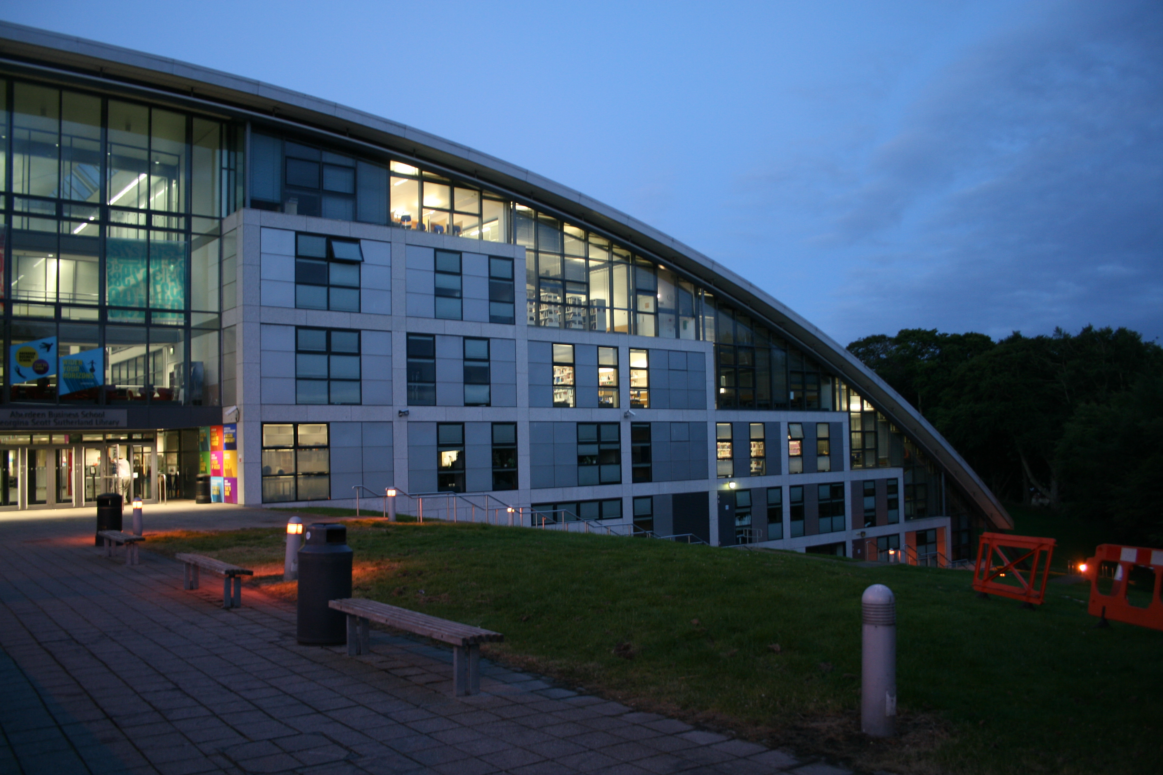 Aberdeen Business School, The Robert Gordon University, Aberdeen